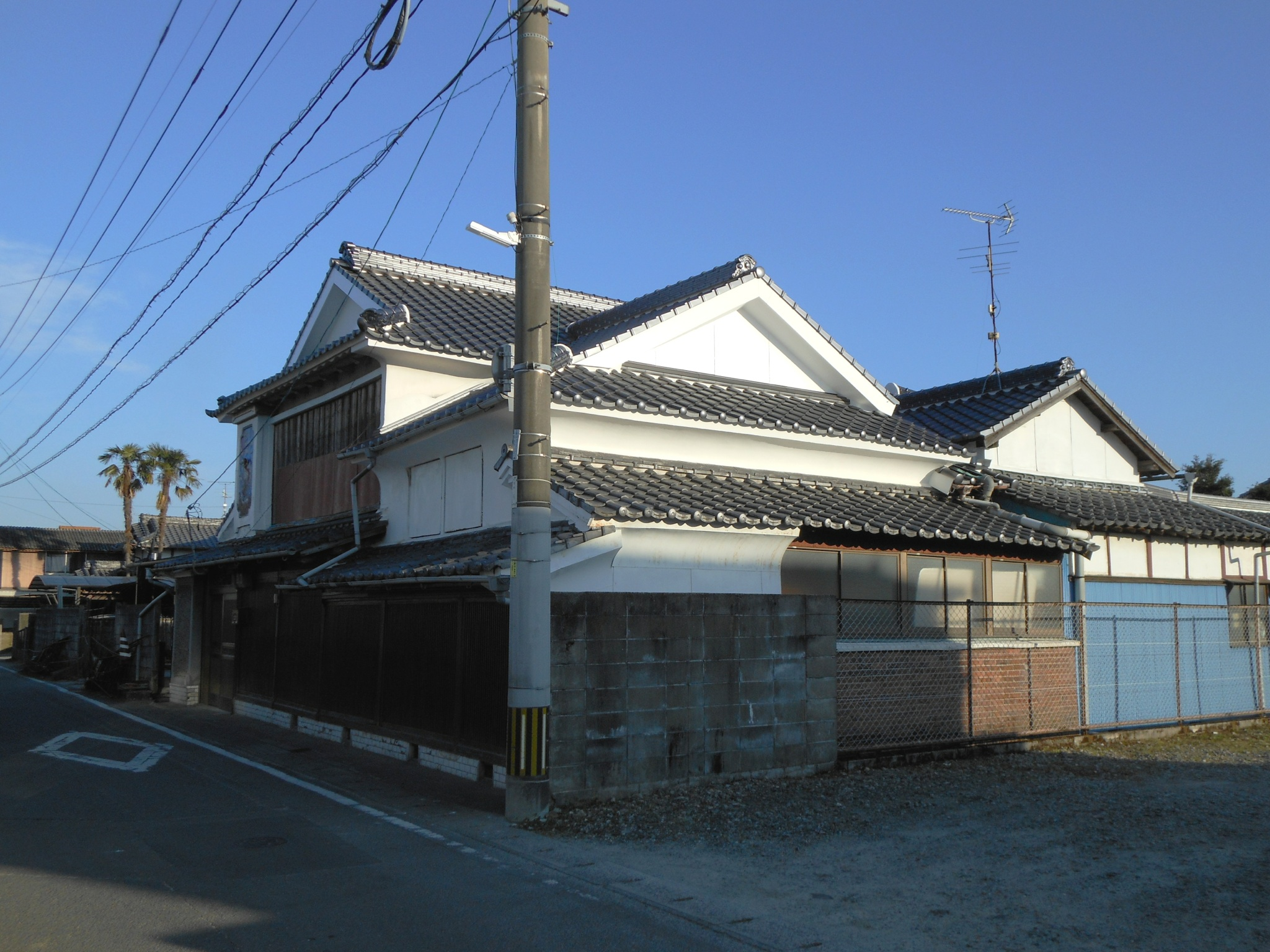 A traditional merchant's house near old Hasuike Castle, in Hasuike, Saga City.